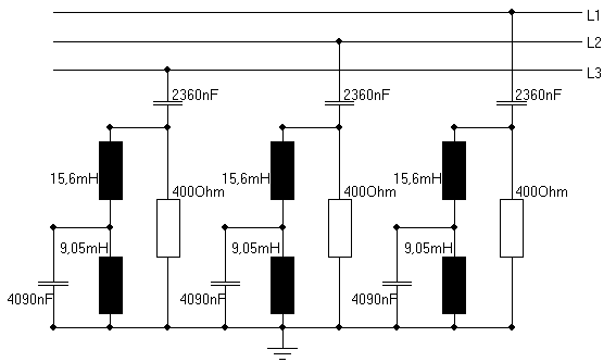 Switching diagram of harmonics filter of HVDC back-to-back station Etzenricht